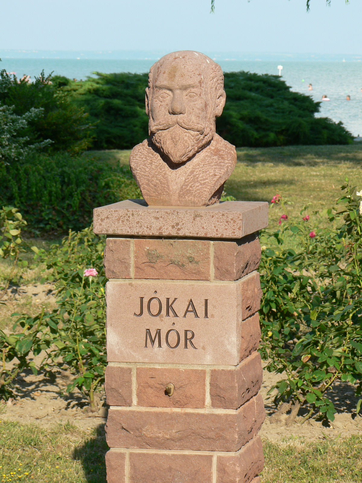 Jókai Mór mellszobor (Simon Dániel /budapesti szobrász/, 2008, permi vörös homokkő) - Alsóörs, Sirály park [1]